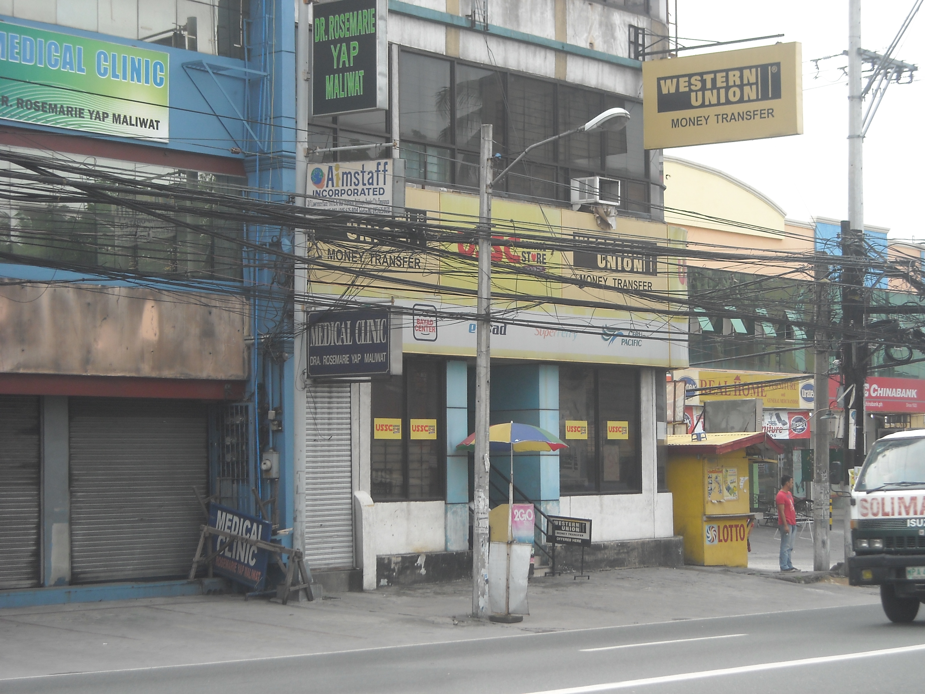 One of many Western Union branches in Angeles City, Philippines.